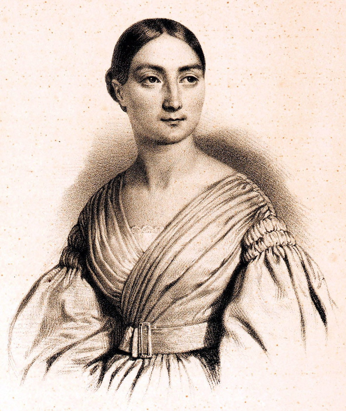 Cornélie Falcon (1814–1897), soprano who sang at the Paris Opera from 1832 to about 1840